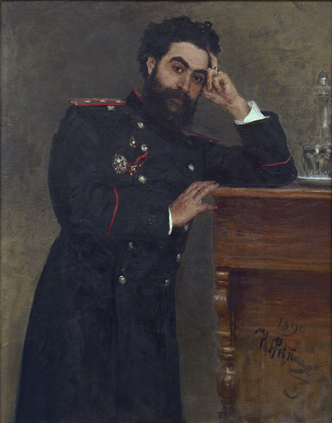 Portrait of the Russian physiologist, translator, pedagogue and science communicator Ivan Romanovich Tarkhanov